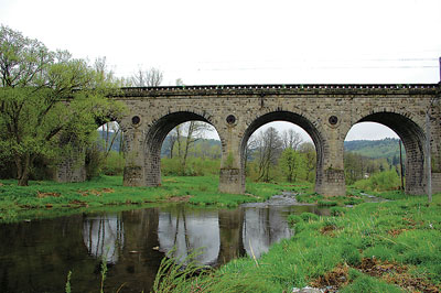 Railway viaduct in Bolczów